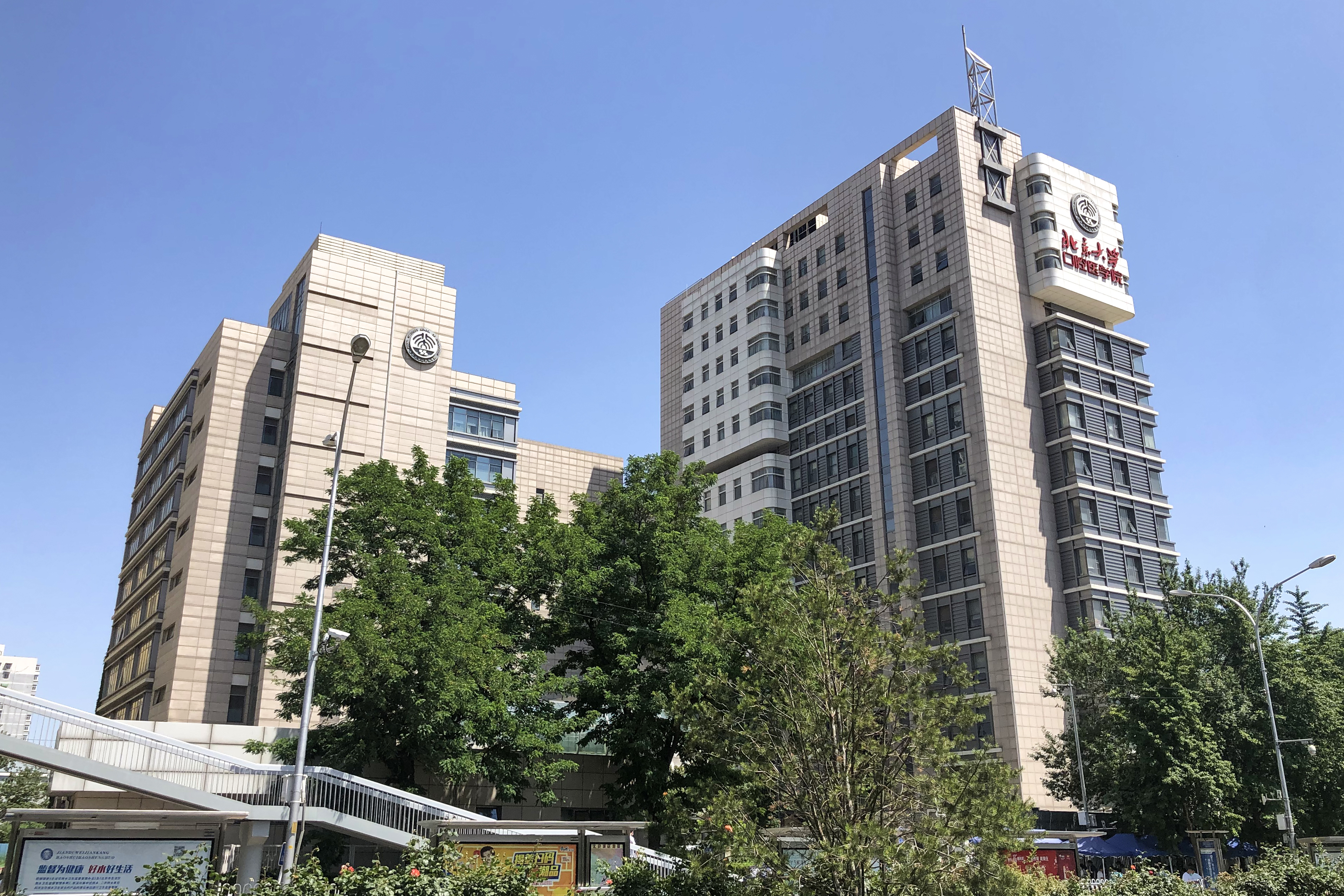 For kids, Weigongcun is often associated with dental issues...